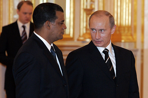 THE GRAND KREMLIN PALACE, MOSCOW. At the letters of credential presentation ceremony with Ambassador of the Dominican Republic to Russia Jorge Luis Perez Alvorado.